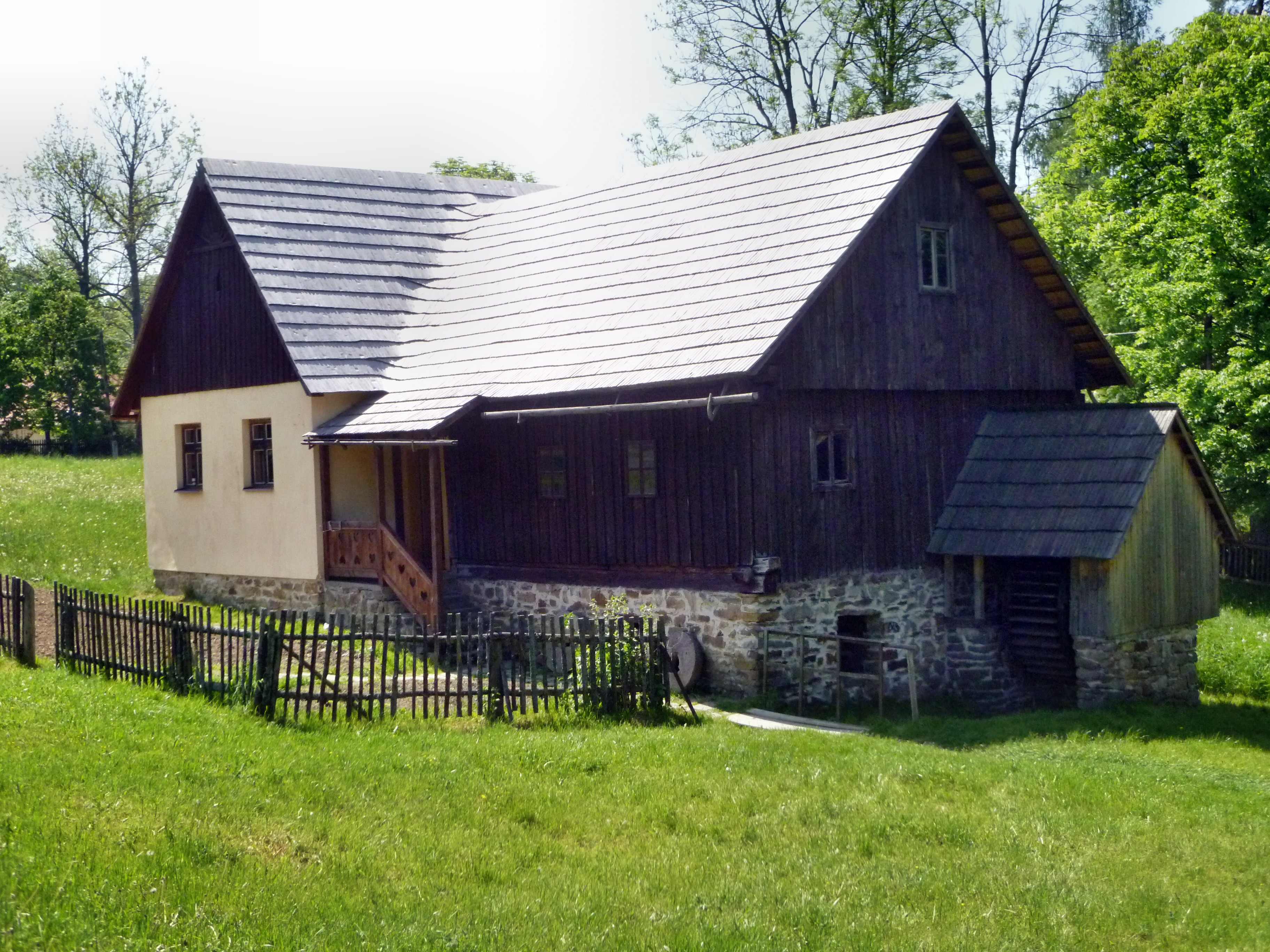 Mill from Sulin in the open-air museum of Ľubovňa (Slovakia)